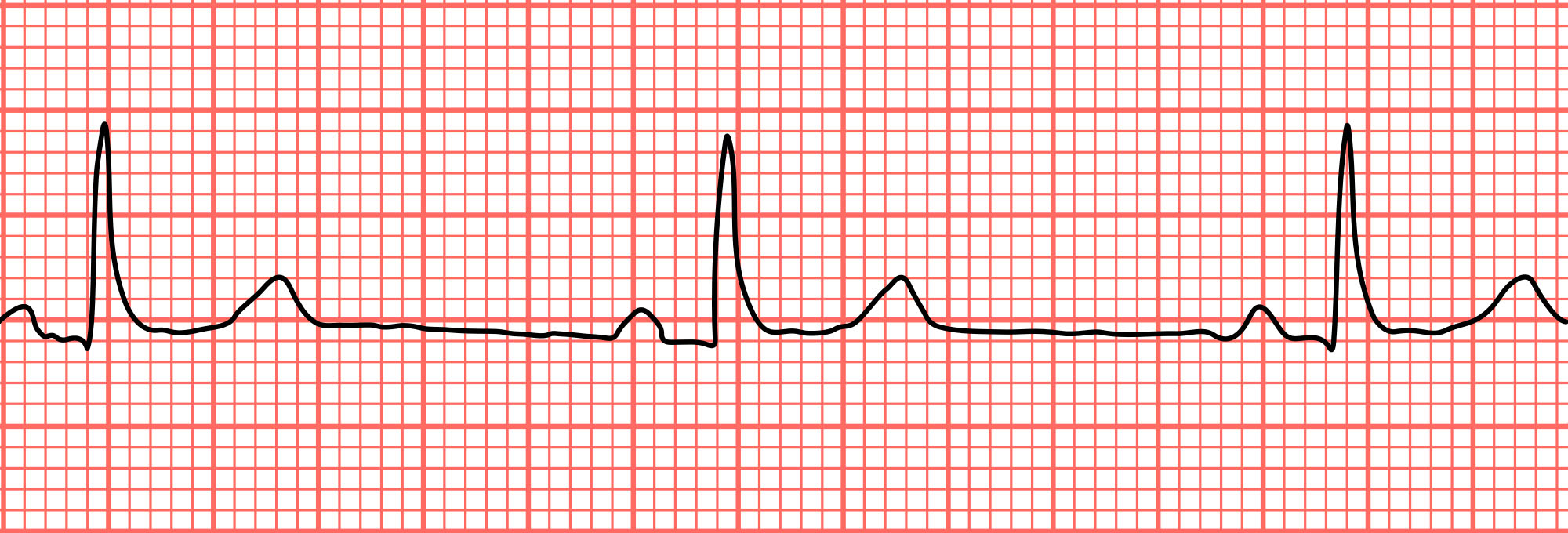 ECG diagram showing Sinus Bradycardia